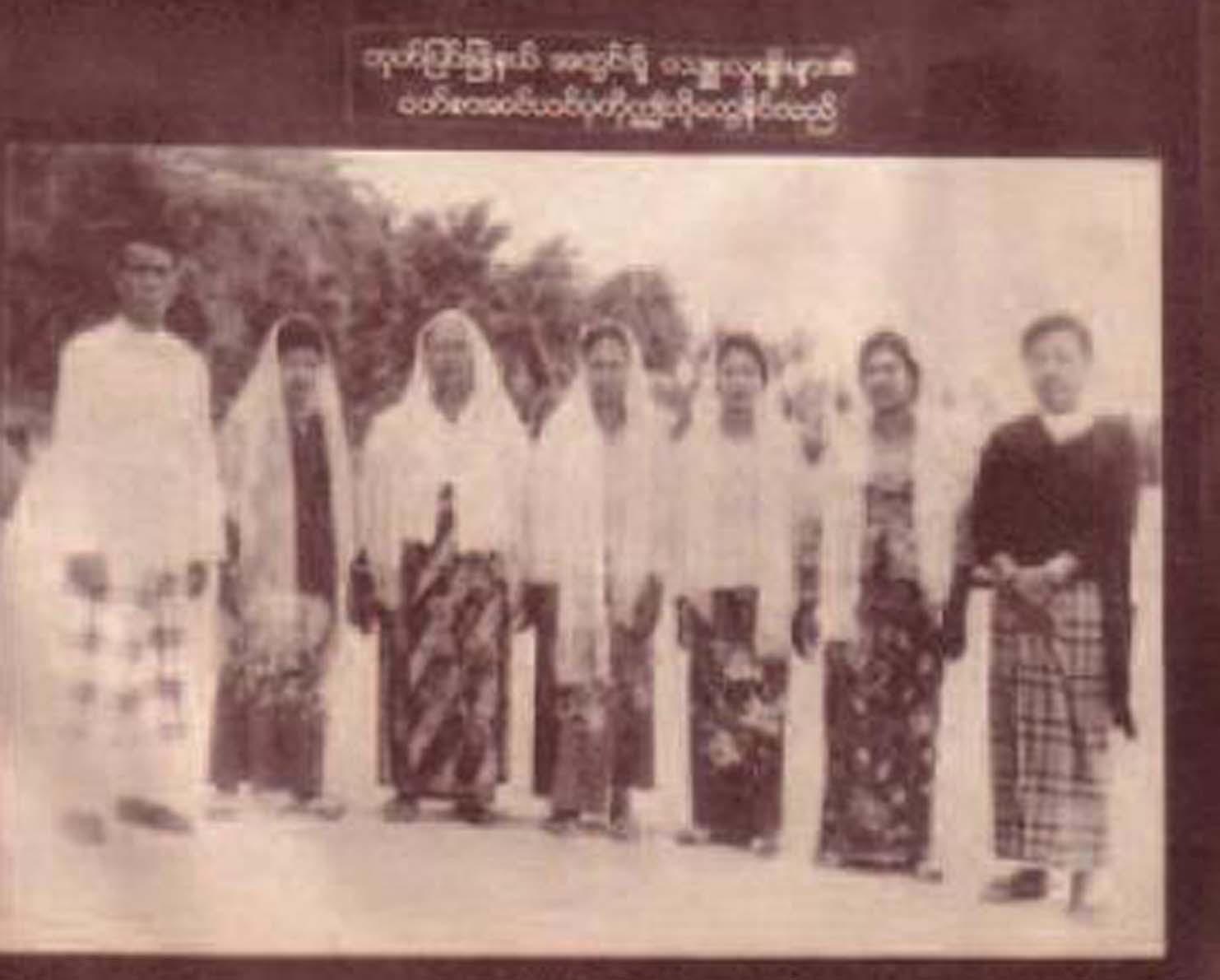 A group of Malays in Burma after world war 2.